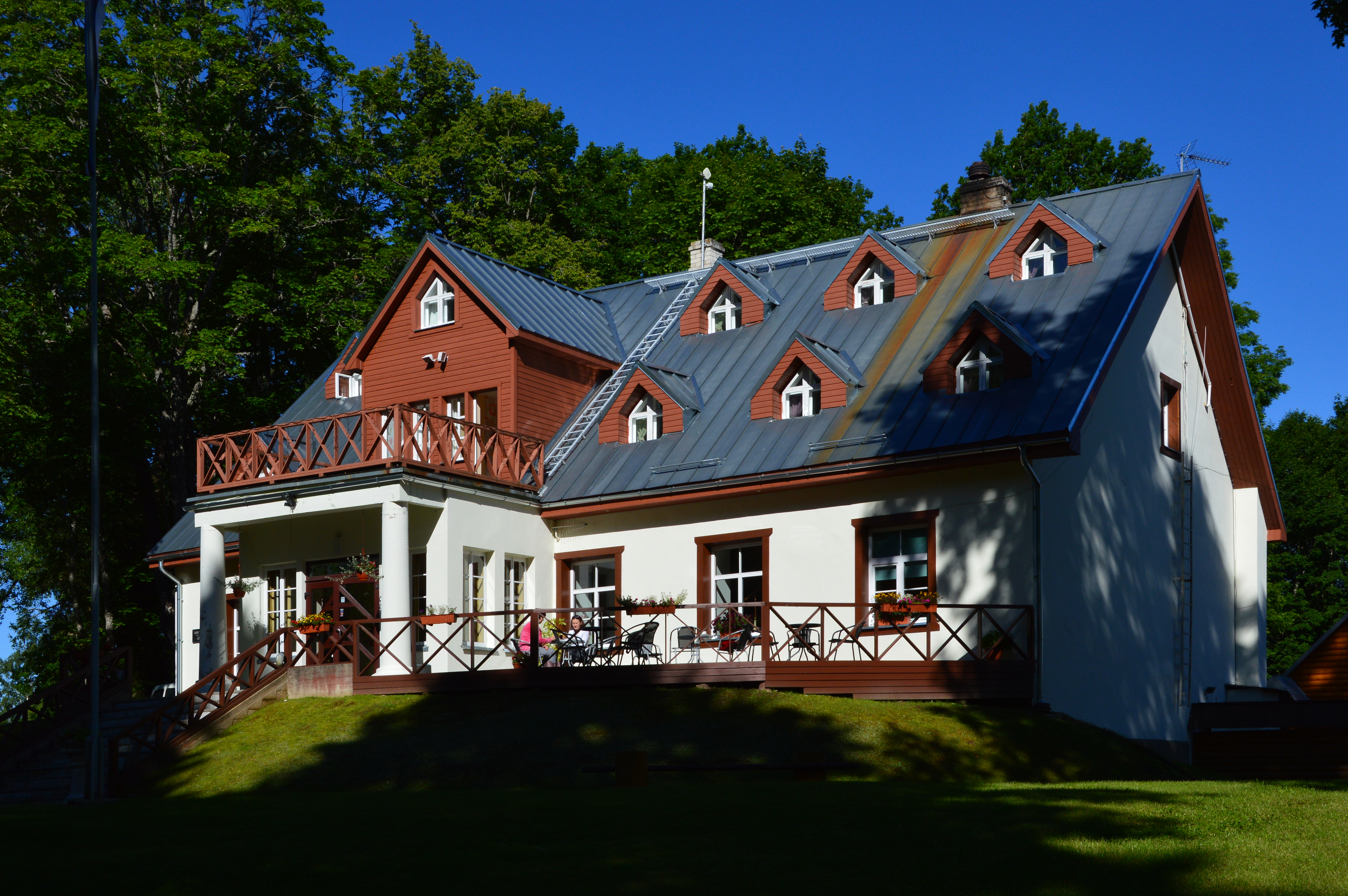 Koke village school house in Rõuge Parish. School was situated at that house during 1829-1963.